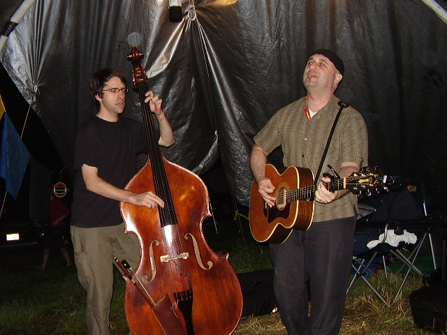 I took this picture in the Budgiedome at the Falcon Ridge Folk Festival on July 23, 2006 Horvendile 04:15, 31 July 2006 (UTC)